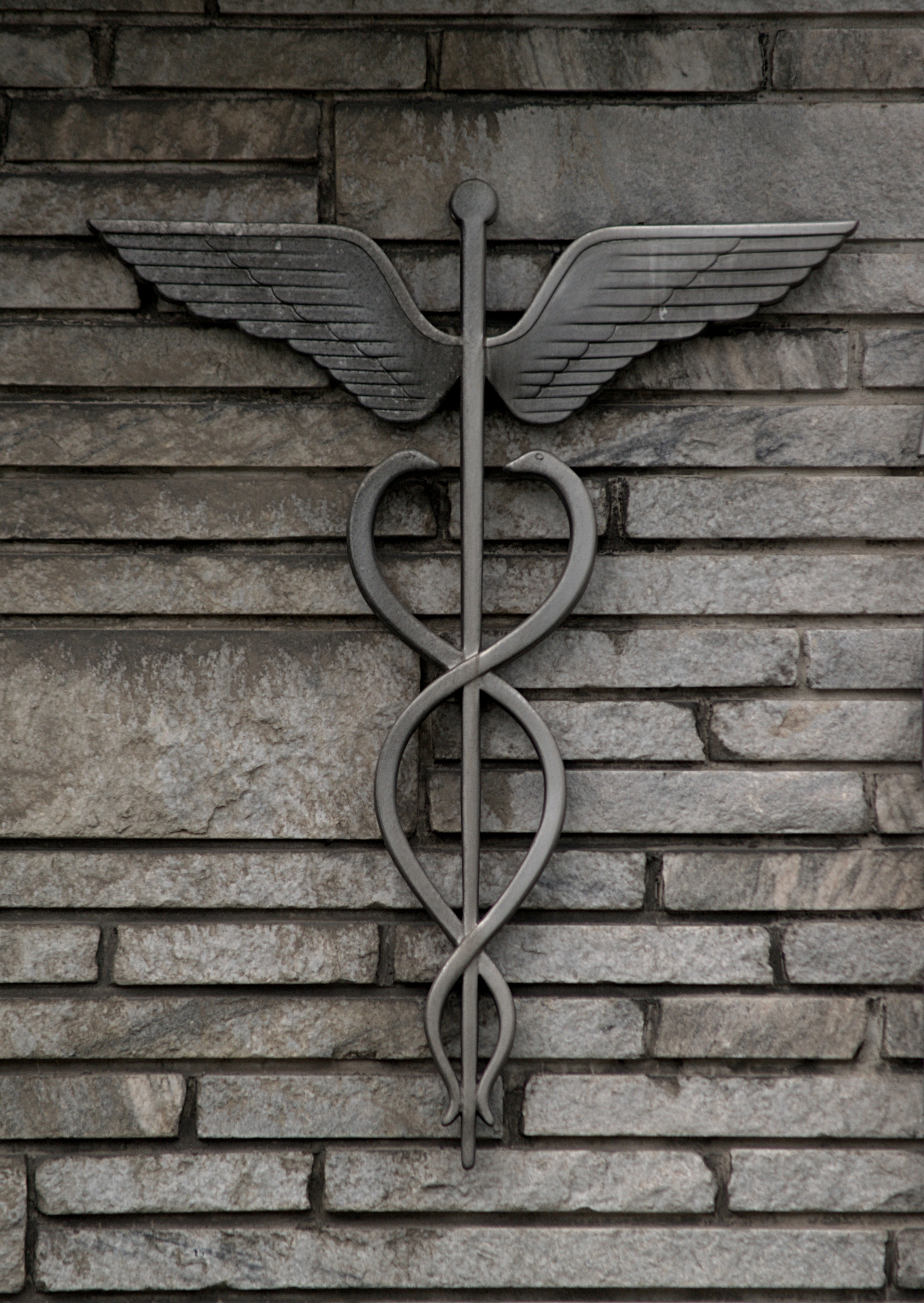 Aluminum Winged Caduceus (Silver Spring, MD)